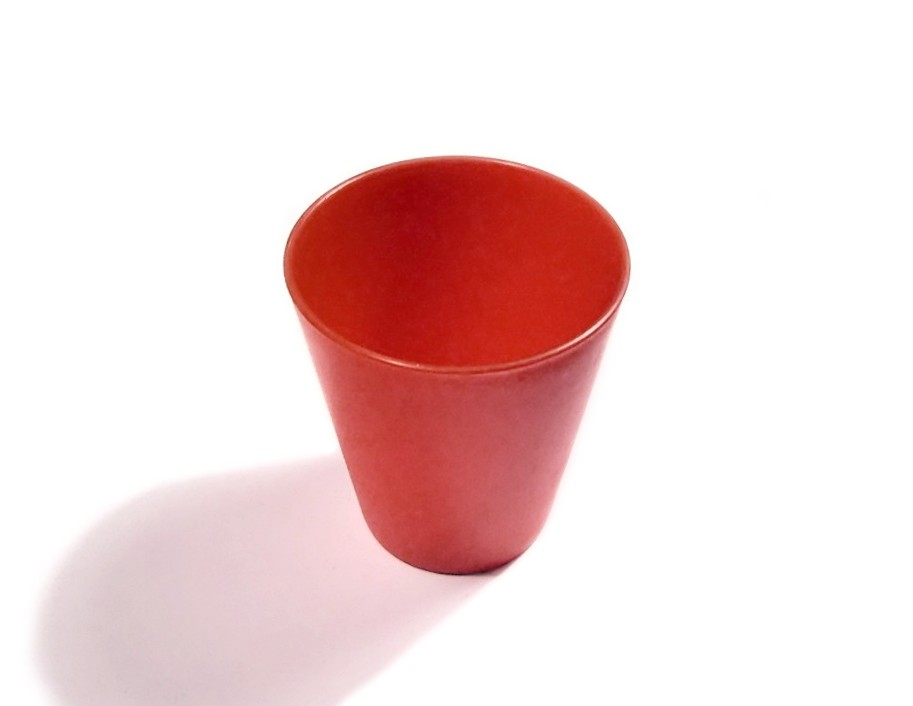 By Richard Wheeler (Zephyris) 2007.